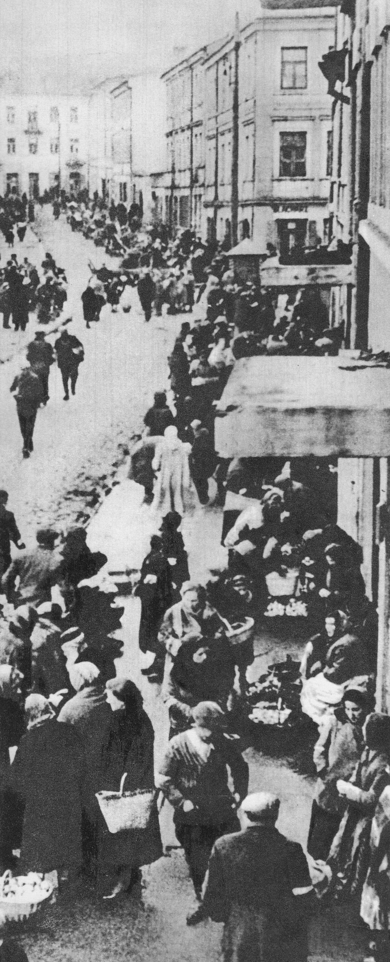 A street in Lublin Ghetto